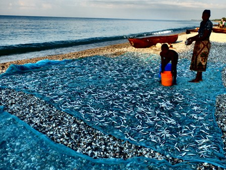 Lake sardines (Engraulicypris sardella) on the shore of Lake Malawi This is an image of food from Malawi